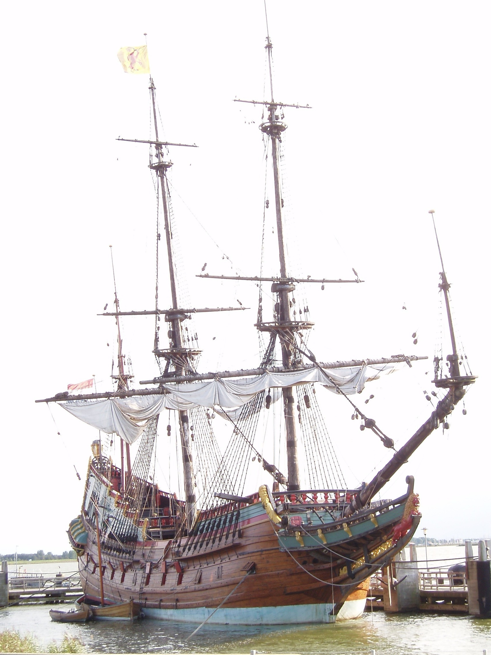 Ship Batavia - replica - in the Netherlands